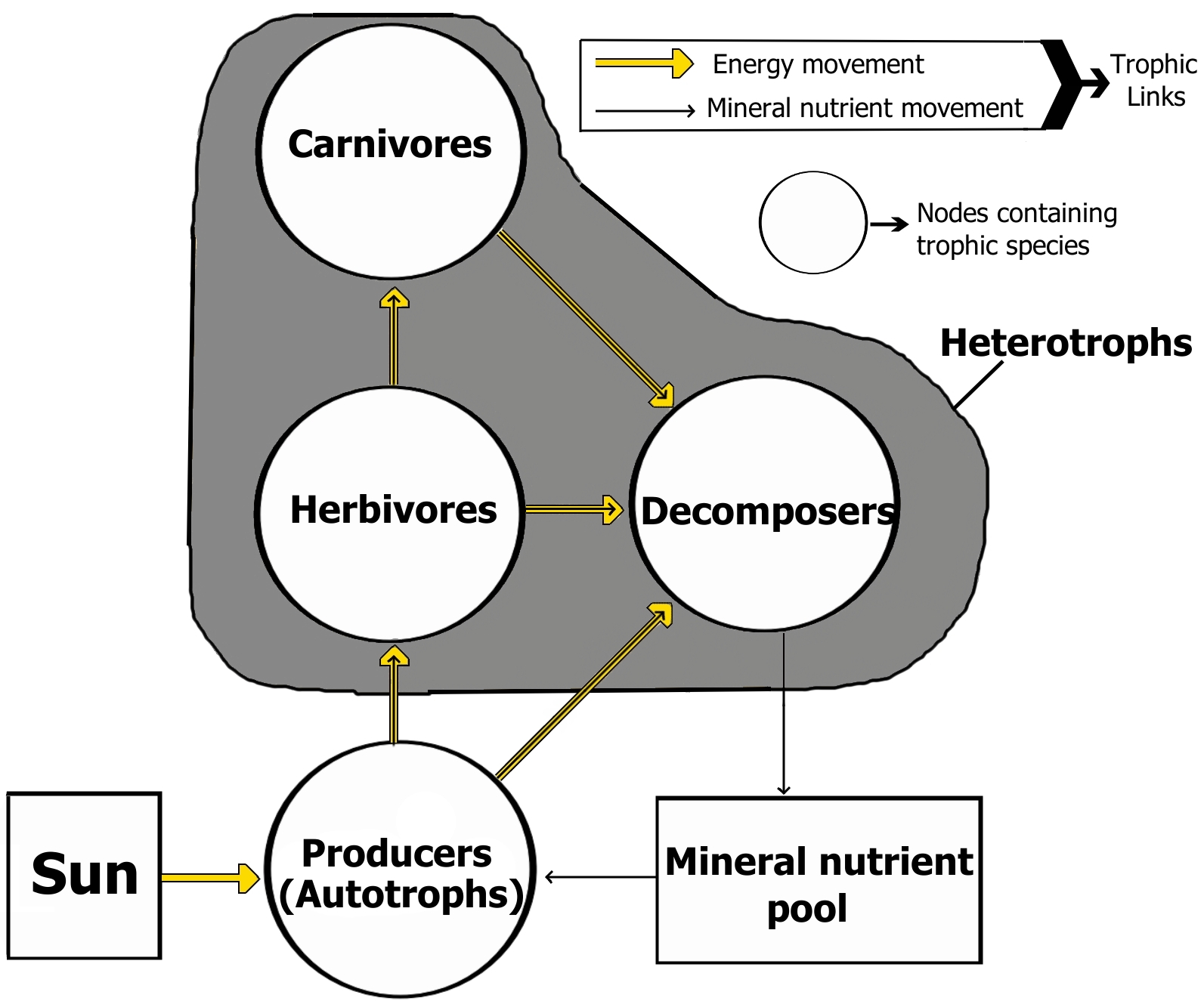 A simplified food web model of energy and mineral nutrient movement in an ecosystem. Energy flow is unidirectional (noncyclic) and mineral nutrient movement is cyclic.